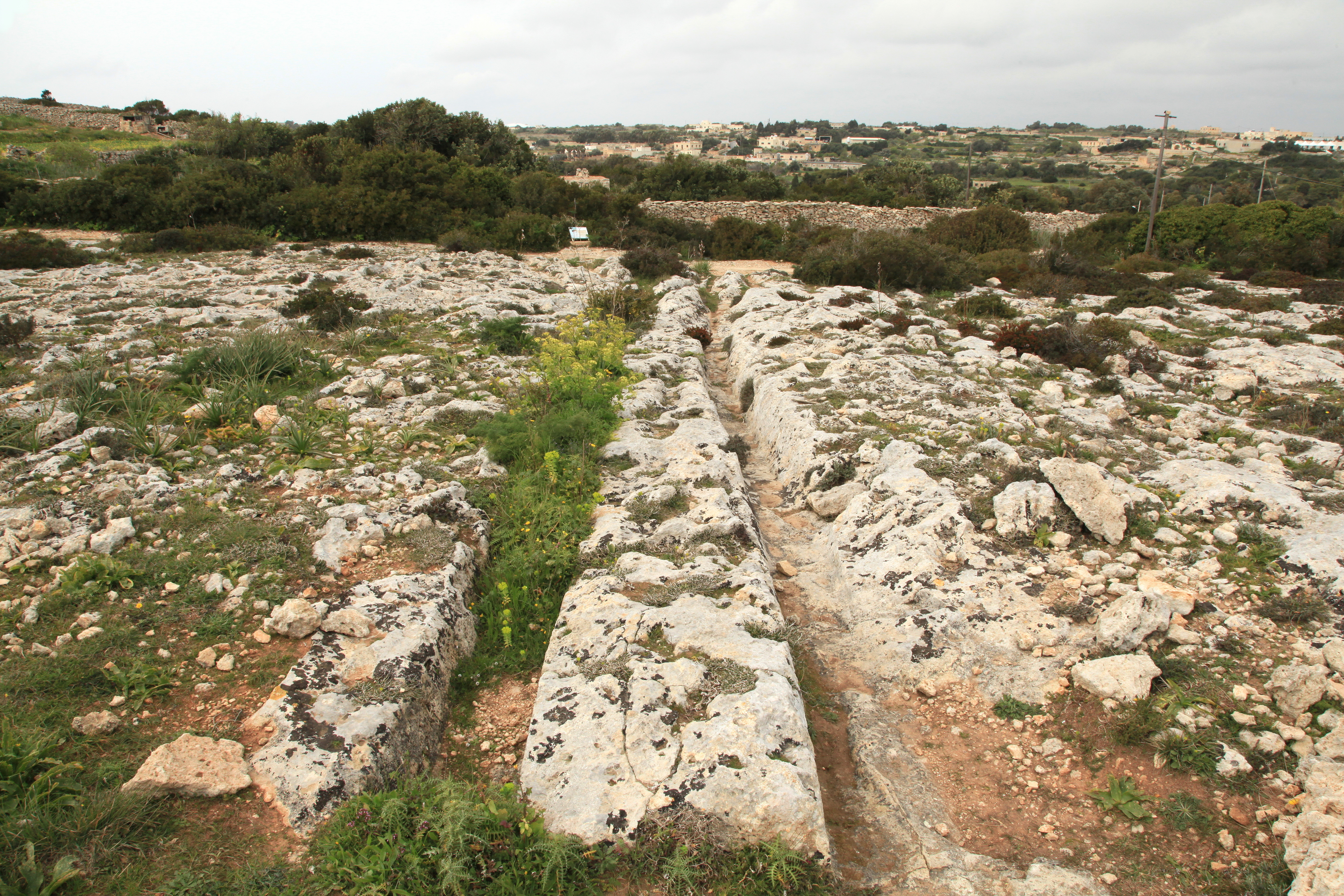 Cart ruts at Misraћ Gћar il-Kbir in Siġġiewi, Malta